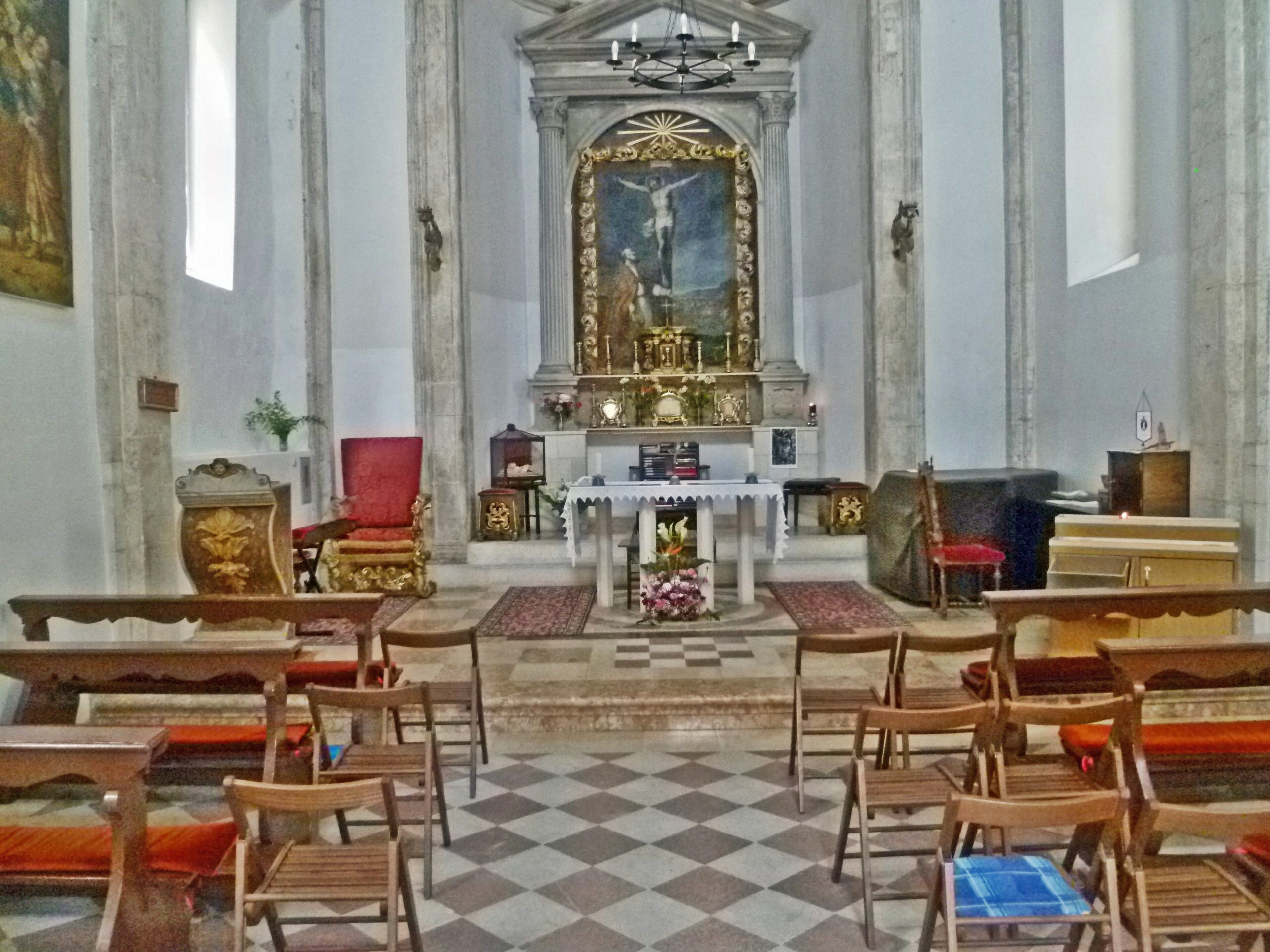 Interior of the Saint Saviour Church, Dubrovnik, Croatia